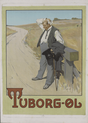 Poster by Erik Henningsen for Tuborg Beer (1900). Lithograph, 92.8 x 66.4 cm. Printed by Chr. J. Cato.